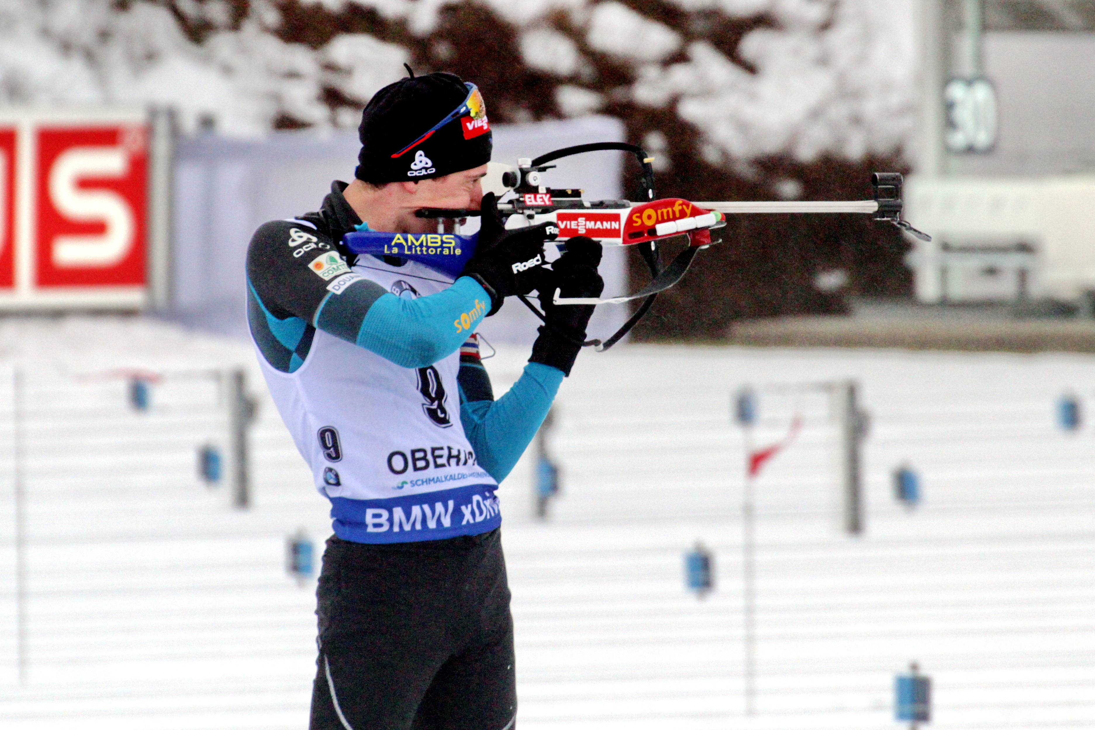 2018 Oberhof Biathlon World Cup - Sprint Men